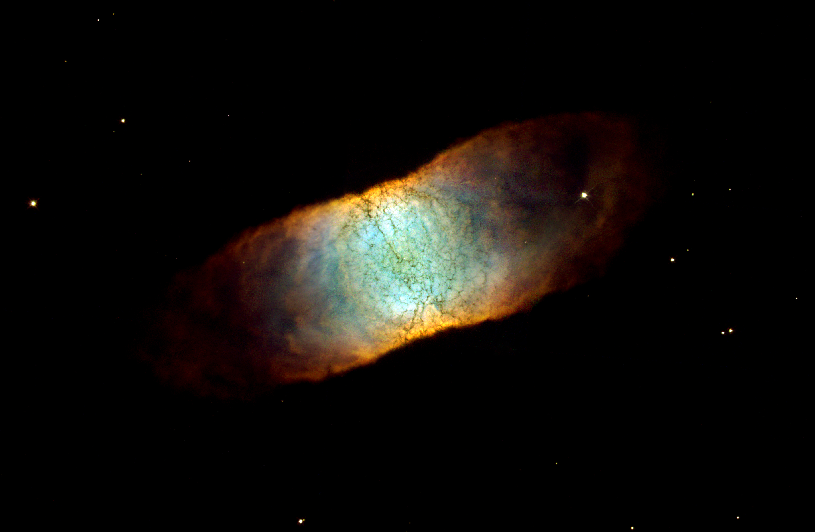 The Hubble telescope reveals a rainbow of colors in this dying star, called IC 4406. Like many other so-called planetary nebulae, IC 4406 exhibits a high degree of symmetry. The nebula's left and right halves are nearly mirror images of the other. If we could fly around IC 4406 in a spaceship, we would see that the gas and dust form a vast donut of material streaming outward from the dying star. We don't see the donut shape in this photograph because we are viewing IC 4406 from the Earth-orbiting Hubble telescope. From this vantage point, we are seeing the side of the donut. This side view allows us to see the intricate tendrils of material that have been compared to the eye's retina. In fact, IC 4406 is dubbed the "Retina Nebula."